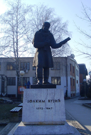 Image of Joakim Vujic